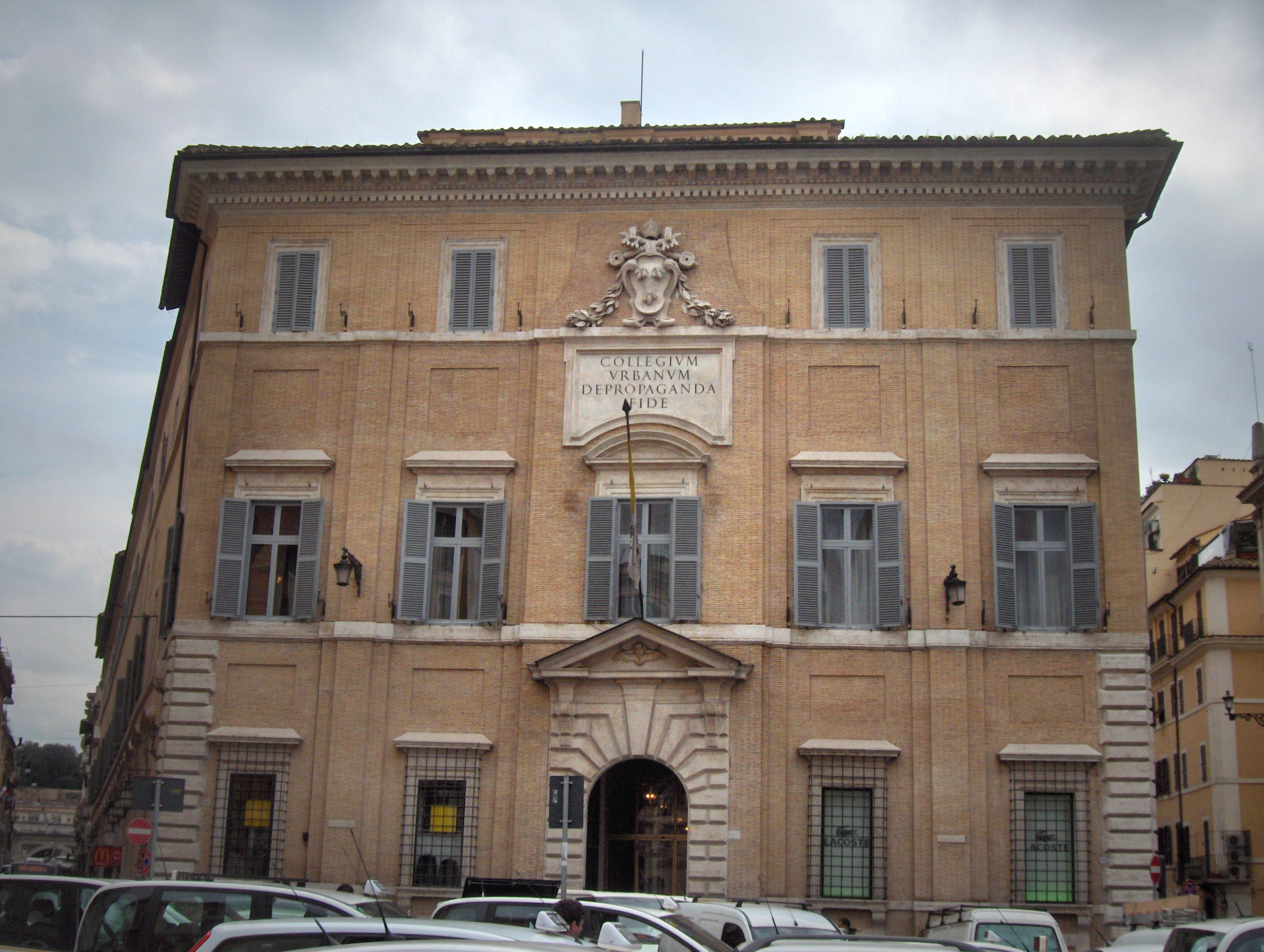 View on Palazzo di Propaganda Fide in Rome, Italy